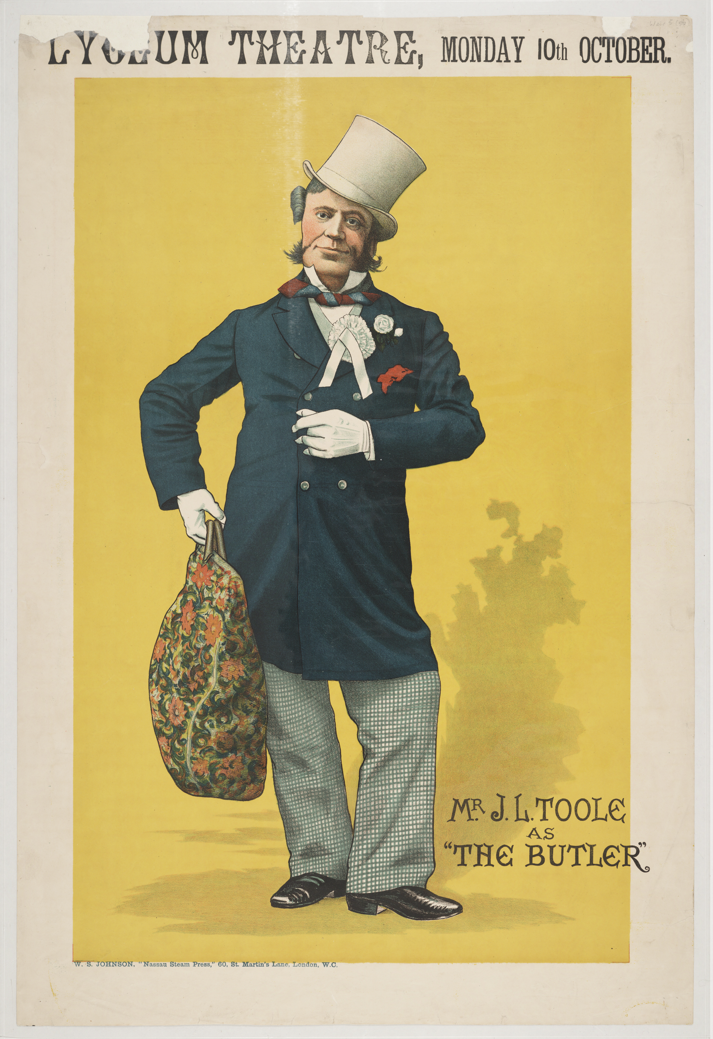 Monday 10th October. Mr J. L. Toole as 'The Butler'. Printed by W. S. Johnson, 'Nassau Steam Press', 60 St. Martin's Lane, London, W.C.